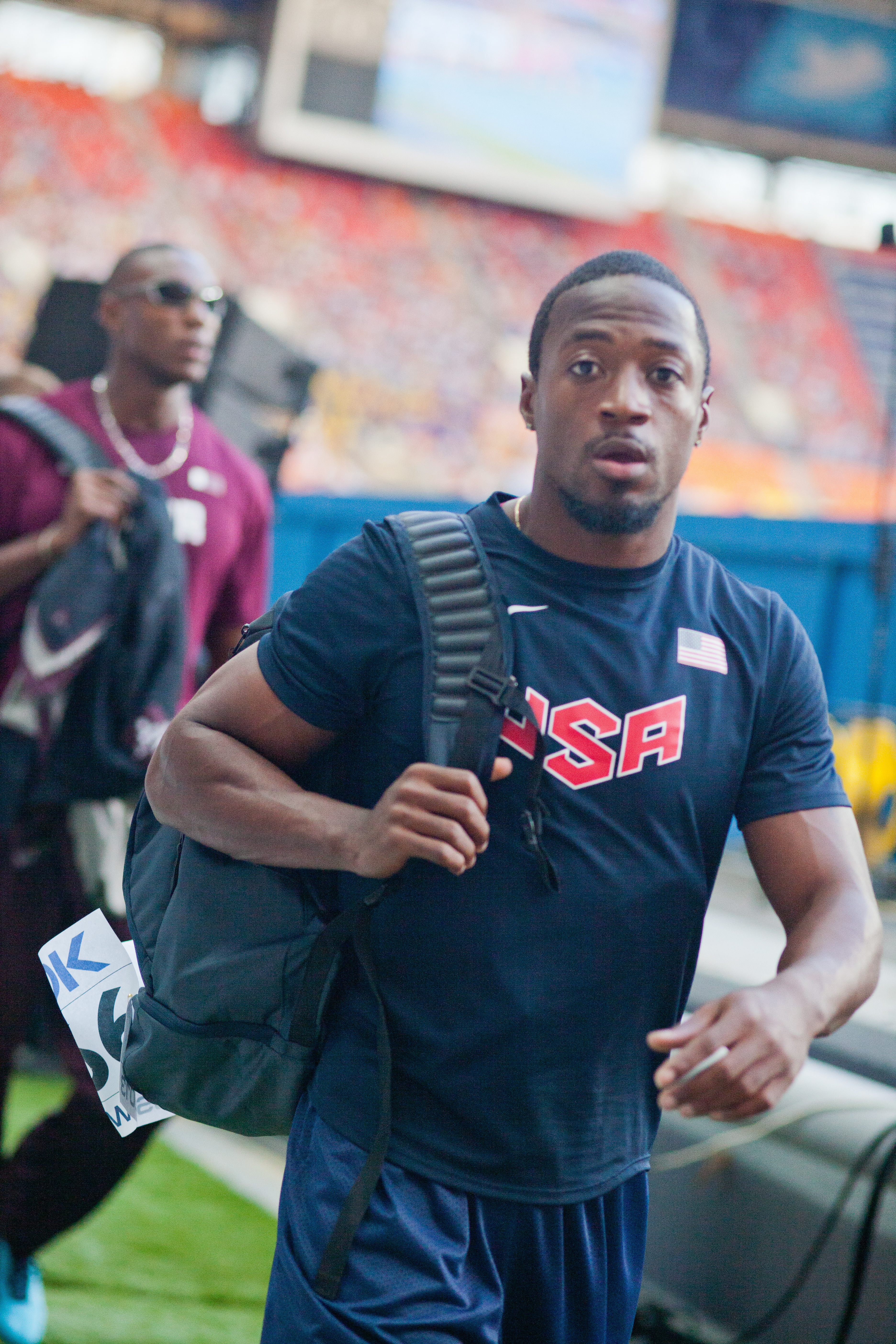 Charles Silmon during 2013 World Championships in Athletics in Moscow.